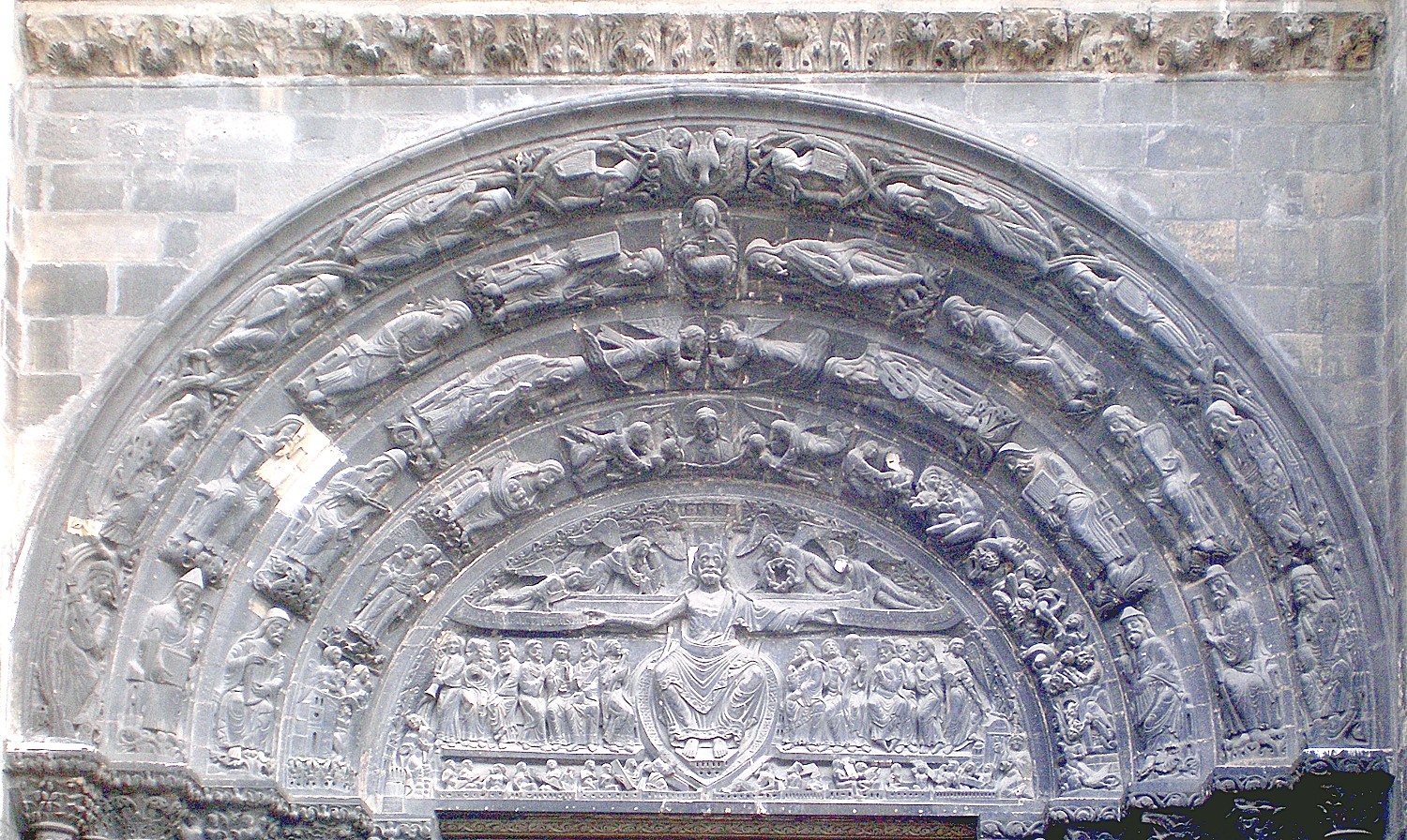 Basilique Saint-Denis - France